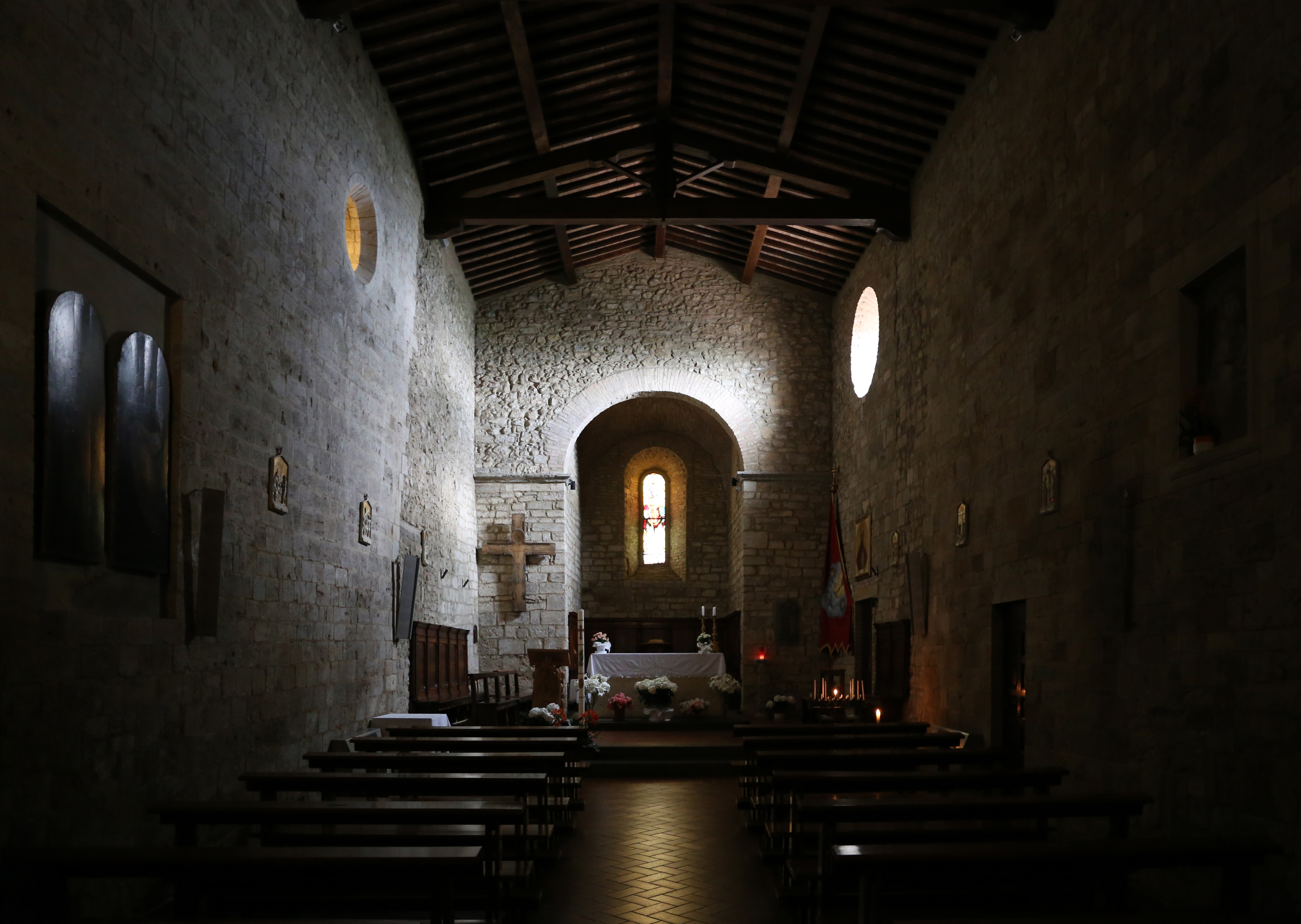 Churches in Volterra